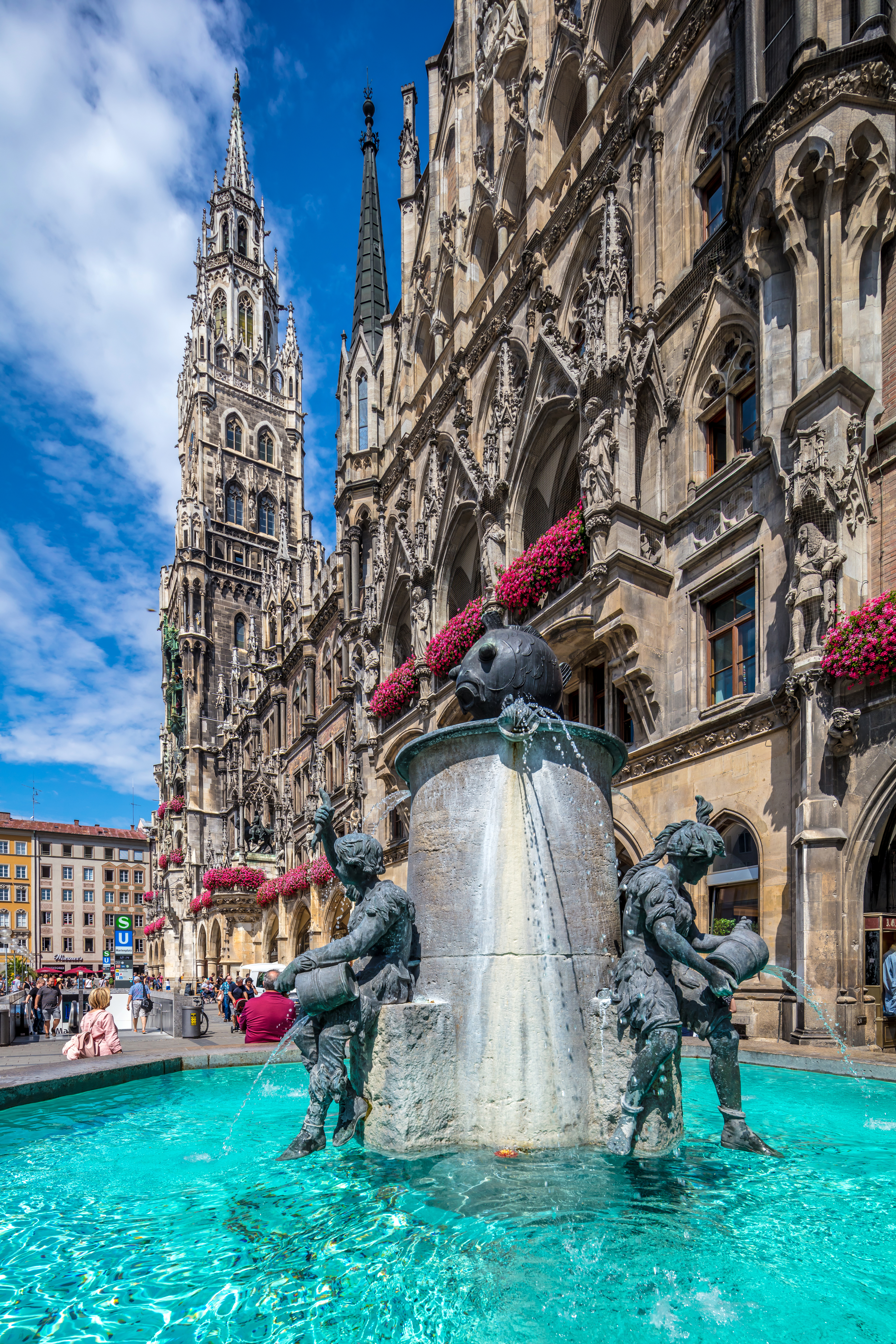 Fischbrunnen and new Town Hall, Munich (08/2018) - Human picture: (1 body / 1 lens / 1 human = 1 picture ) 0% AI ... ;- ) ... Following vandalization (Rotterdam) of my work, final stop of this series on European cities. My work not being respected, I definitively stop my publications in Wikimedia Commons (including definition and quality updates). Final publication in Wikimedia Commons